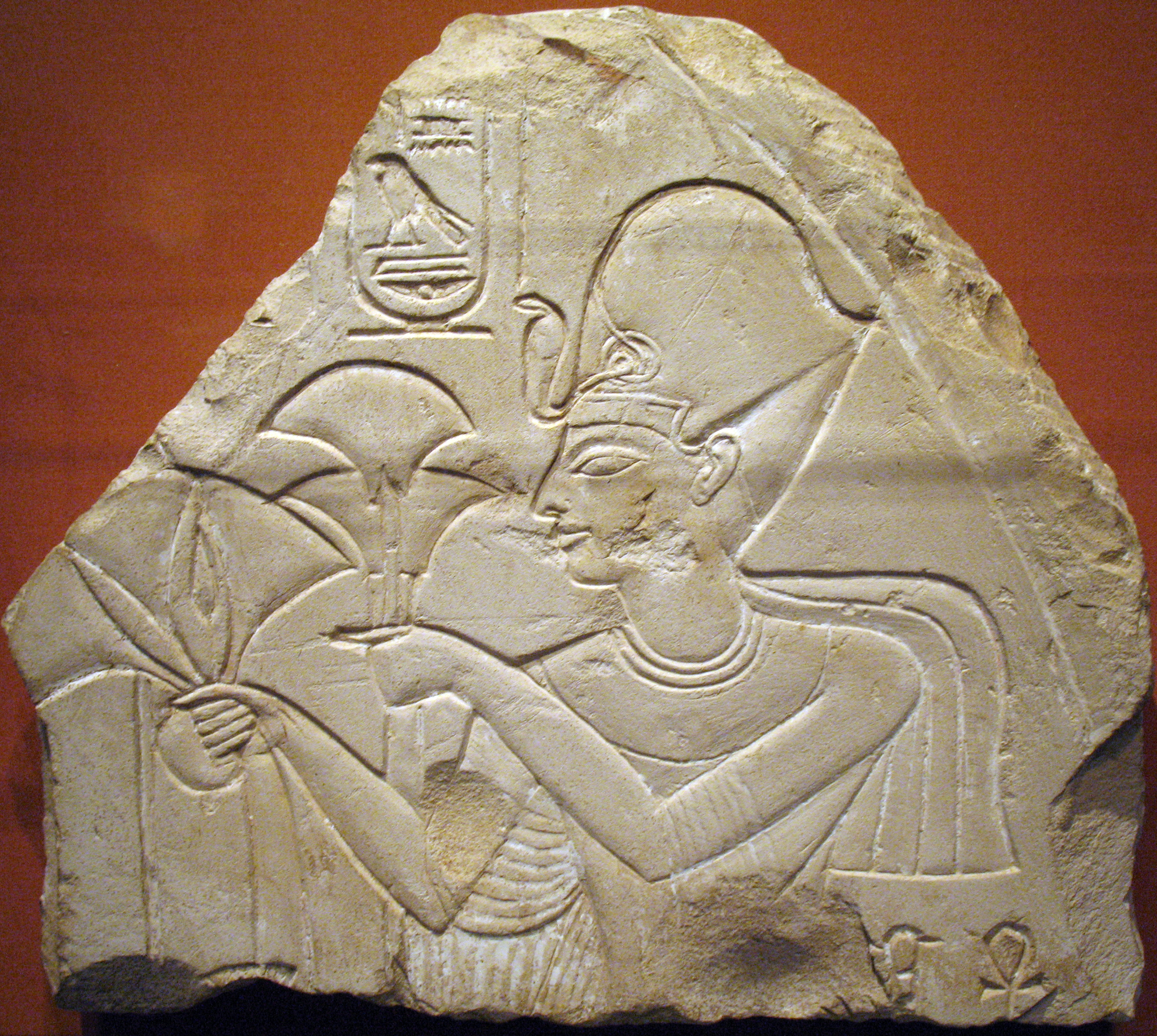 King Horemheb offering; Egypt, Dynasty 18, Reign of Horemheb, 1316-1302 B.C.